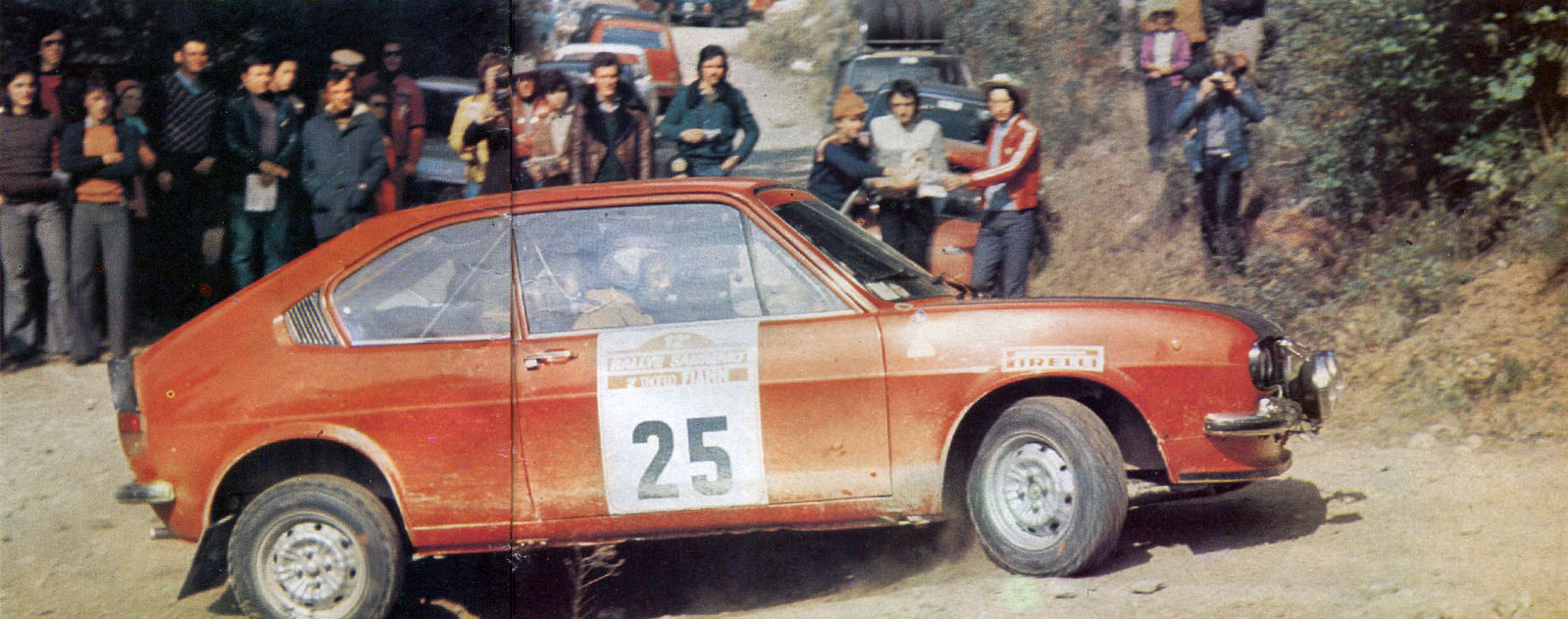 Italian rally driver Federico "Bancor" Ormezzano and his co-driver Enrico Cartotto on an Alfa Romeo Alfasud TI (Group 1) at the 1974 Rallye Sanremo.